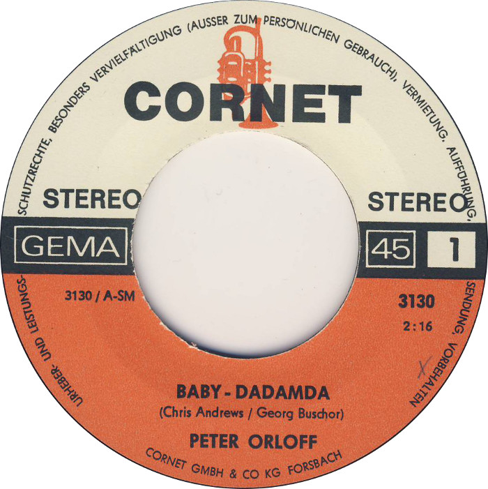 7"-Single „Baby Dadamda“ by Peter Orloff.